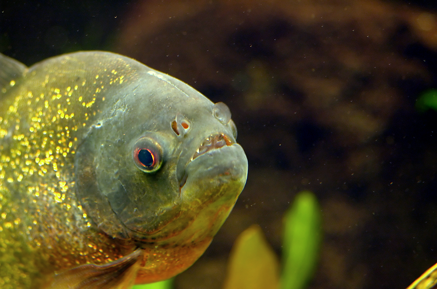 red piranha, portrait